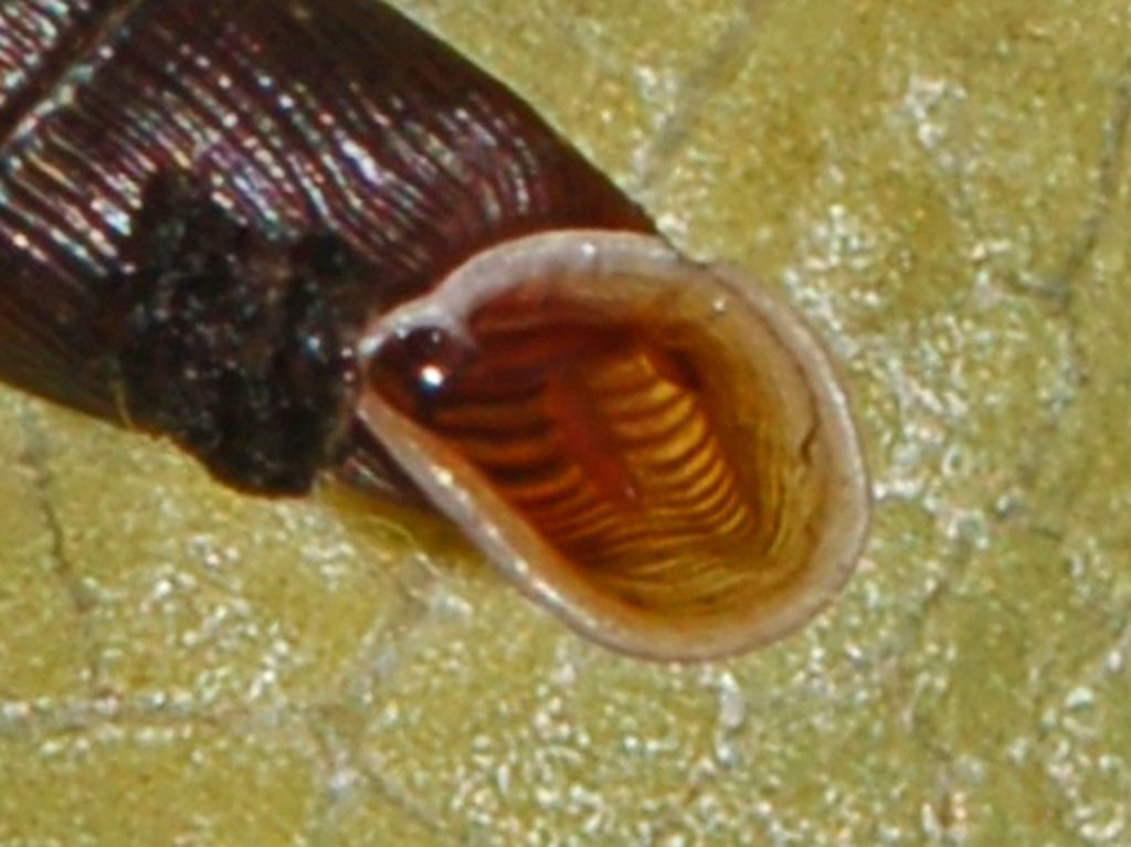 Photo of aperture of Clausilia bidentata crenulata' in Acquasanta. Genova, Italy